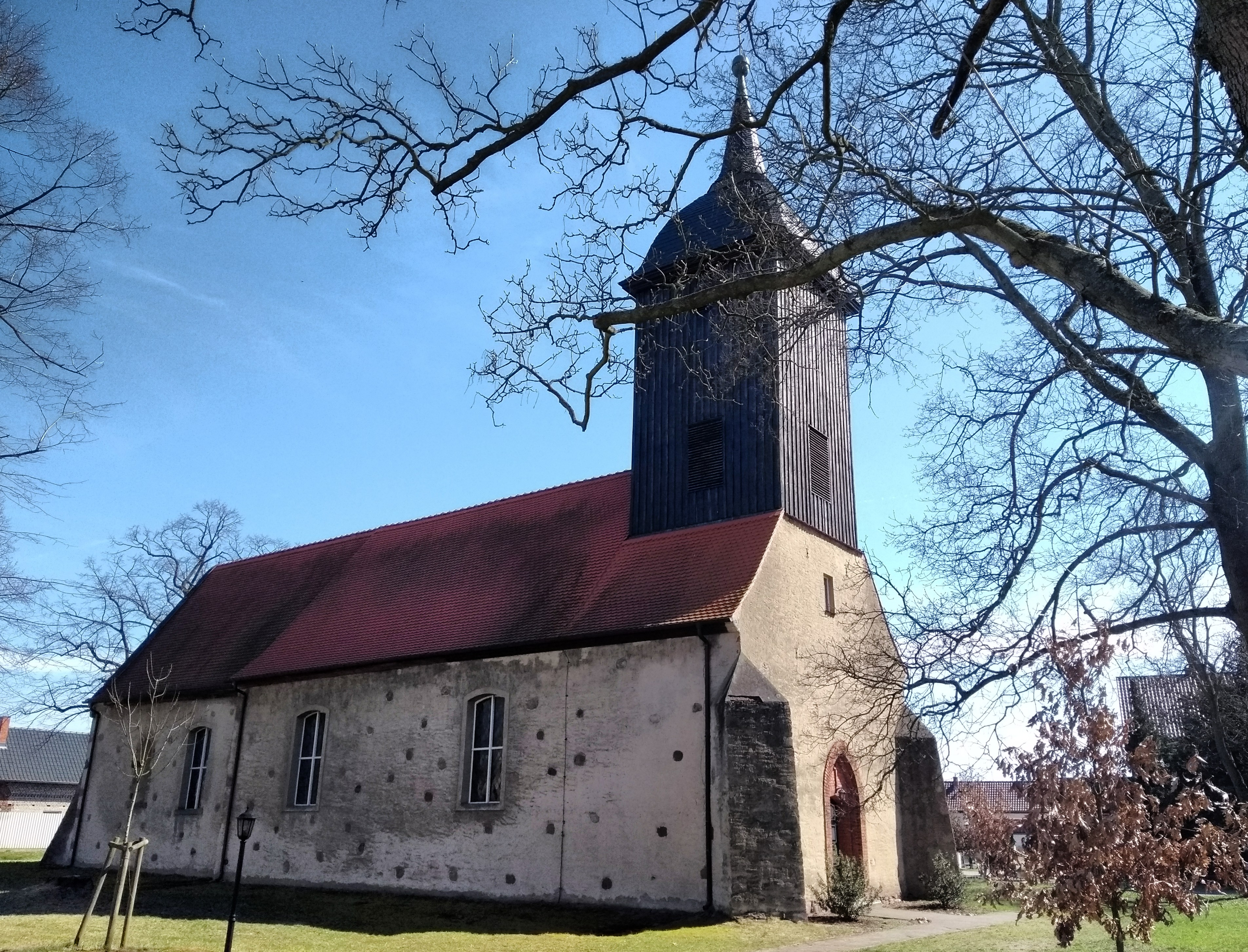 Village church in Glienicke / Rietz-Neuendorf (LOS), Brandenburg, Germany